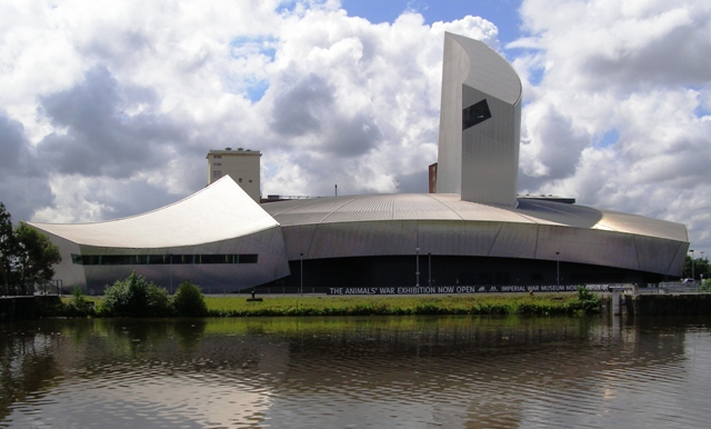 Imperial War Museum North, Old Trafford, Manchester Taken from the quayside outside the Lowry Centre